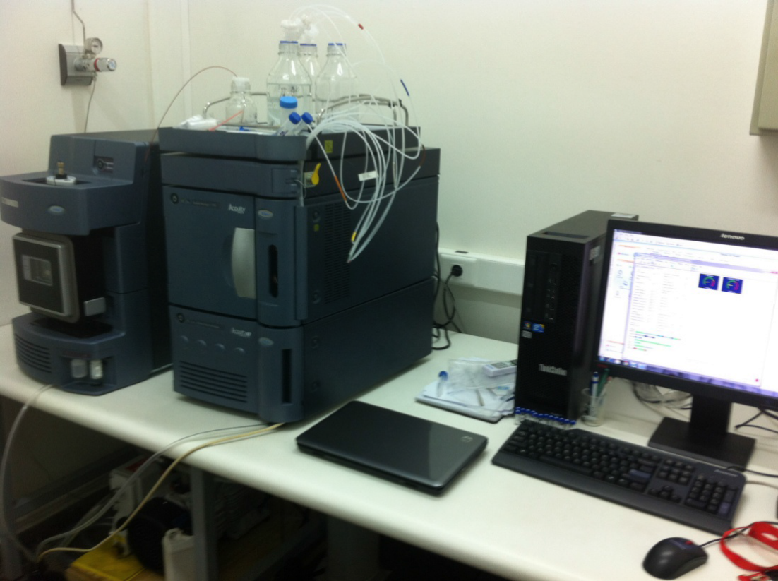 HPLC in Department of Chemistry, Universidad Catolica de Chile. Supported by Mecesup Program